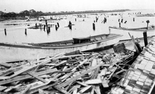 The remnants of Cortez's docks and fish houses on Sarasota Bay after the Hurricane of 1921.